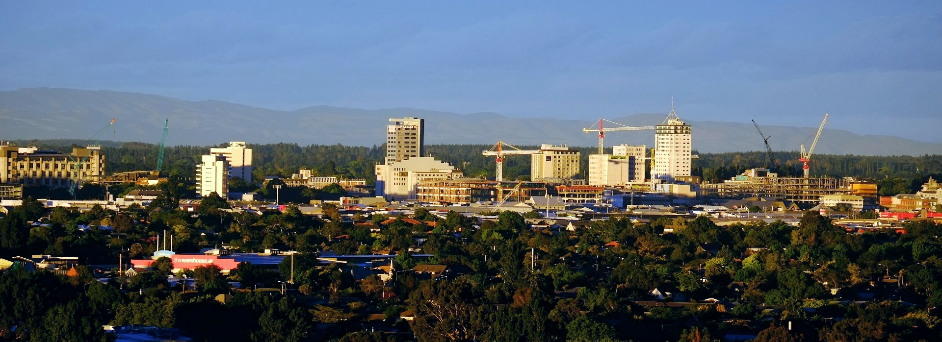 Christchurch Skyline